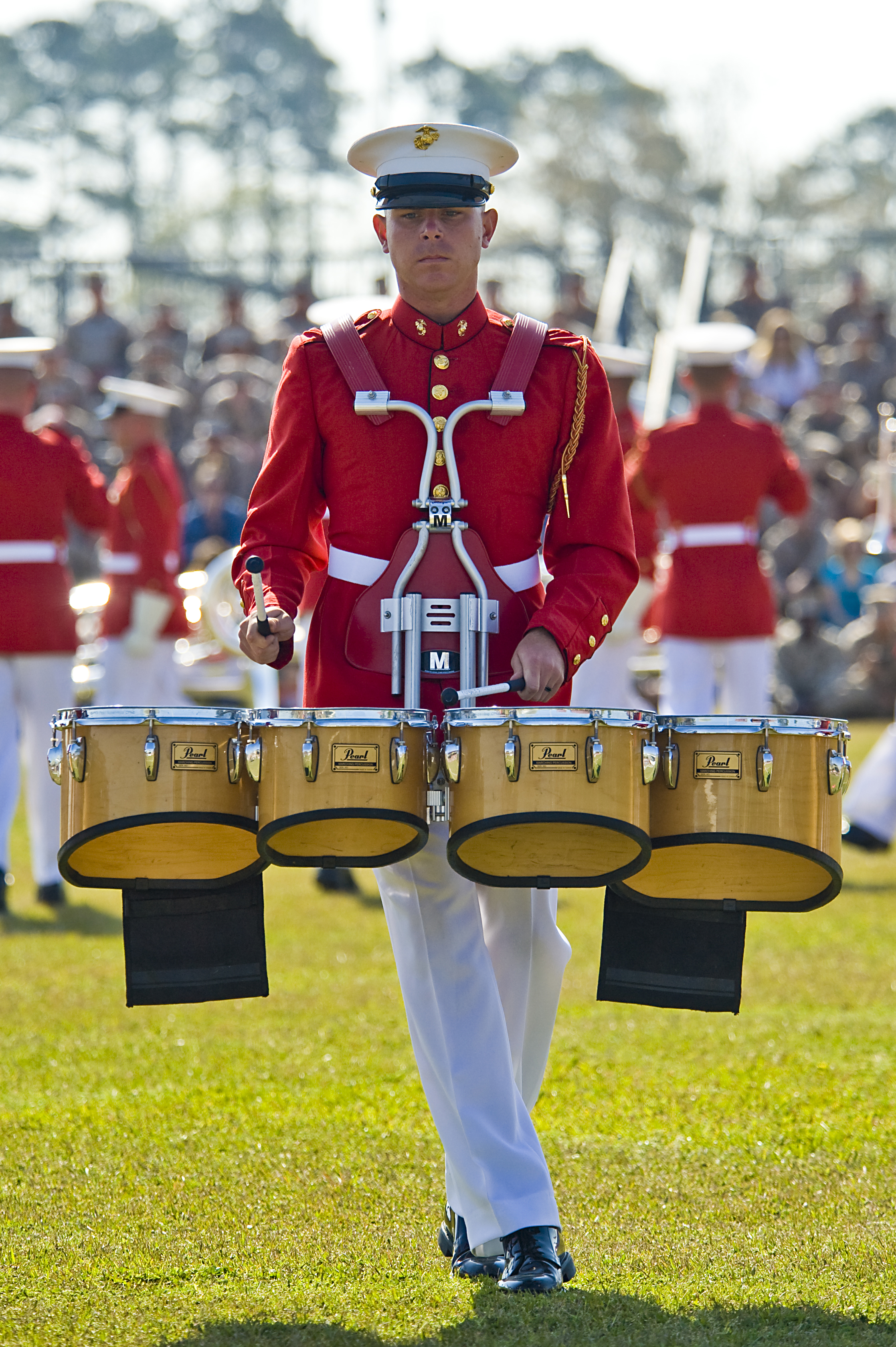 Cpl. Ryan Stitzel, tenor drum section leader, plays with the Marine Drum & Bugle Corps during a Battle Color Ceremony at Marine Corps Base Camp Lejeune, N.C., March 14, 2012. This was the final performance of Battle Color Detachment's National Installations Tour, which included most of the Corps' stateside installations.